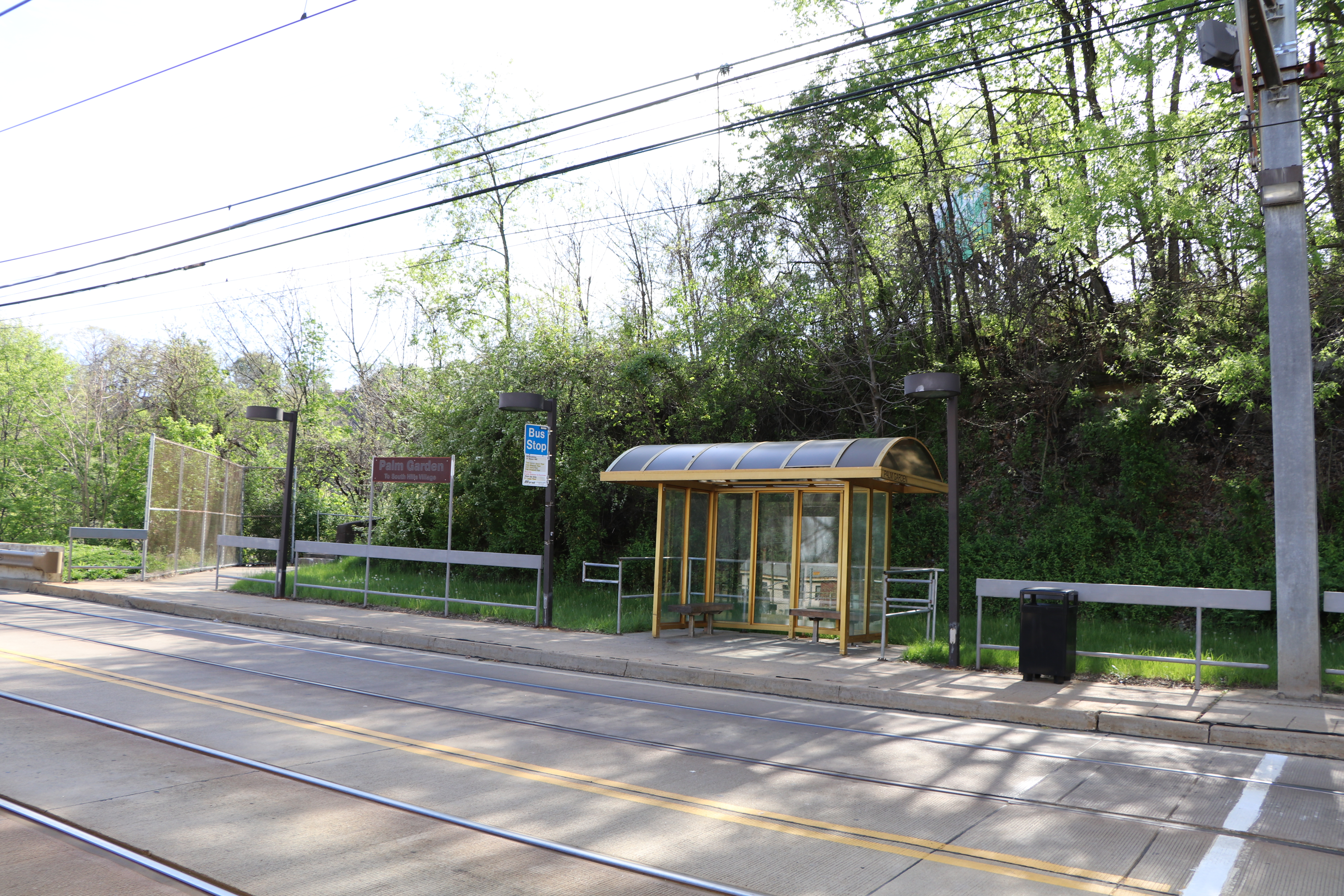 Palm Garden station on the Red Line, Pittsburgh, PA. View looking west at the outbound shelter.